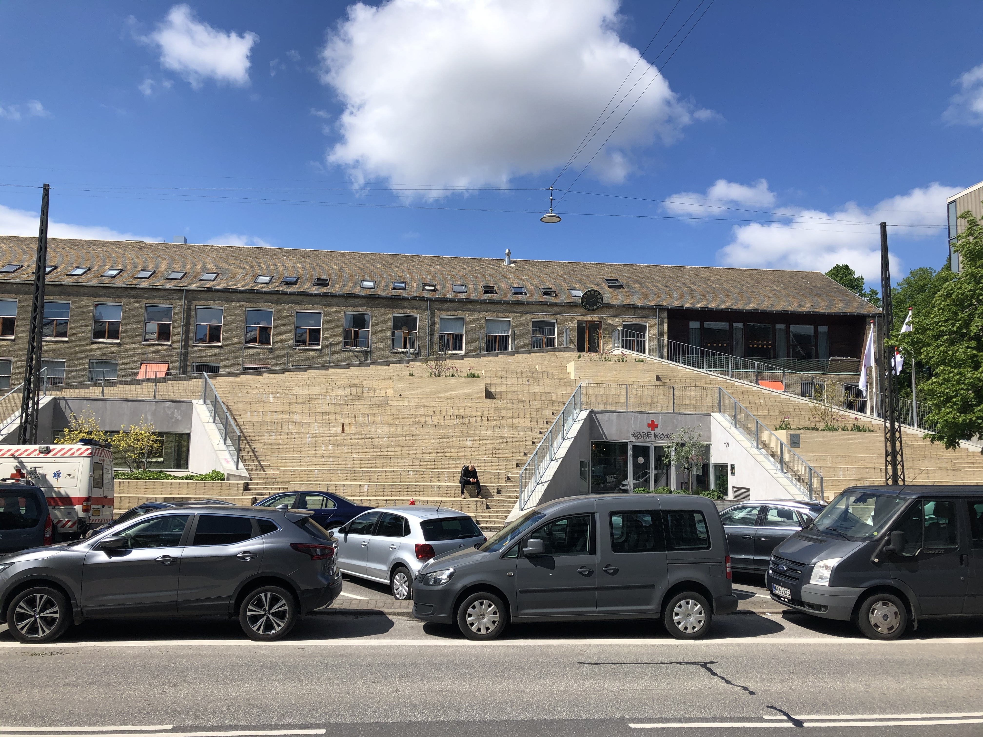 Red Cross Copenhagen Hall